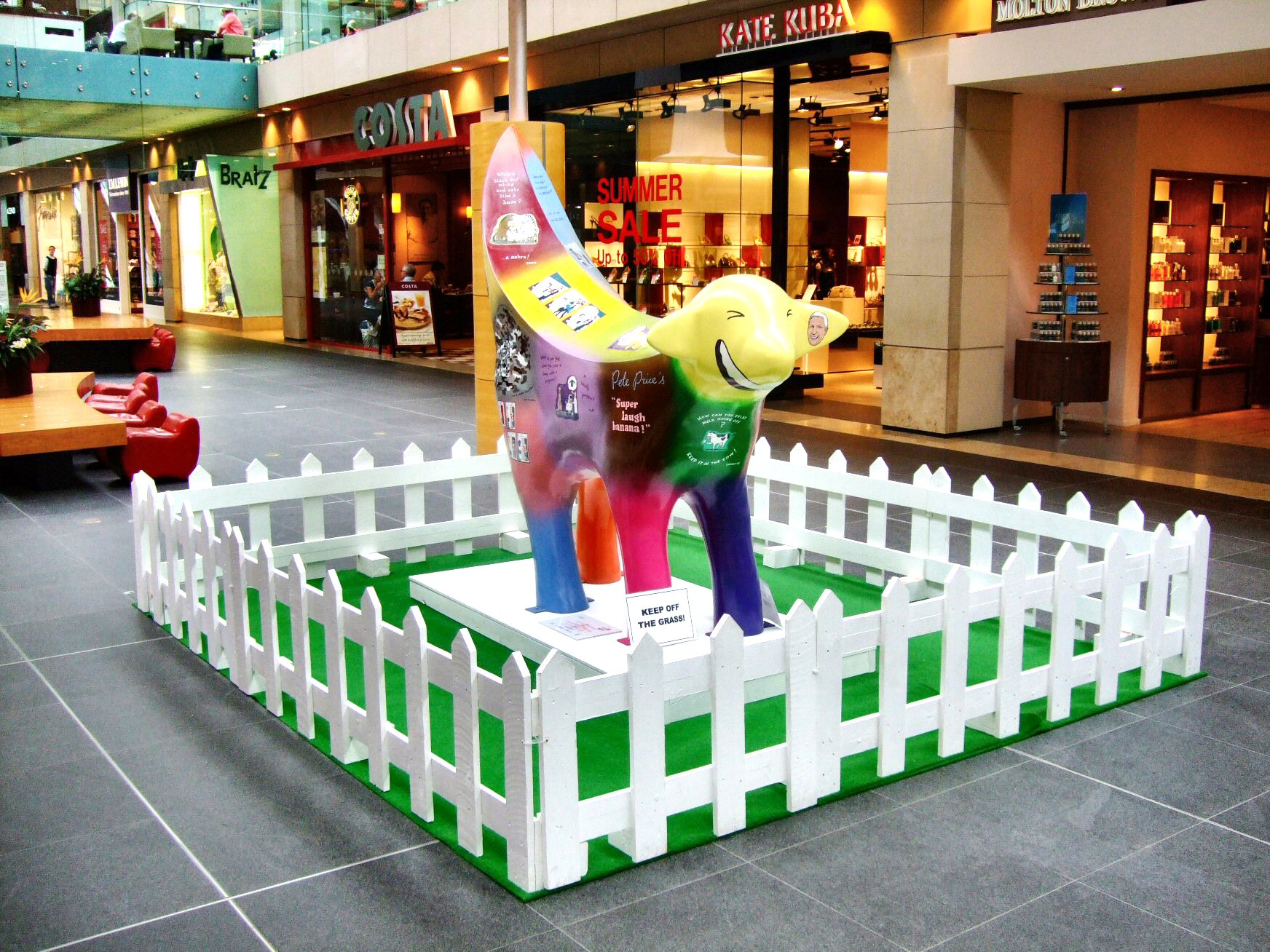 Artist: Created by Pete Price. Designed and produced by Phillip Marsden Sponsor: Liverpool Daily Post and ECHO Location: Metquarter